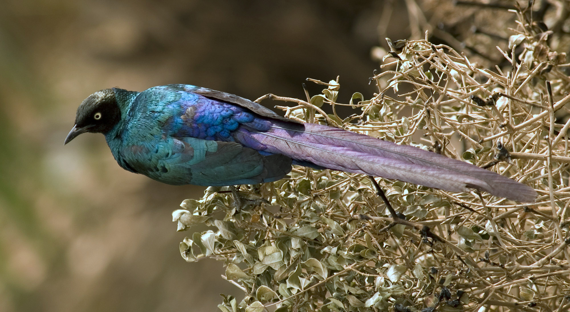 Hann Park, near Dakar, Senegal. Added to Wikipedia. Shifting colors of purple, green and blue in the sunlight. Usually seen in small flocks (But I haven't been to the bush where for all I know the flocks might number in the 100s of birds). Like most starlings, noisy and energetic.This pic more fun large.